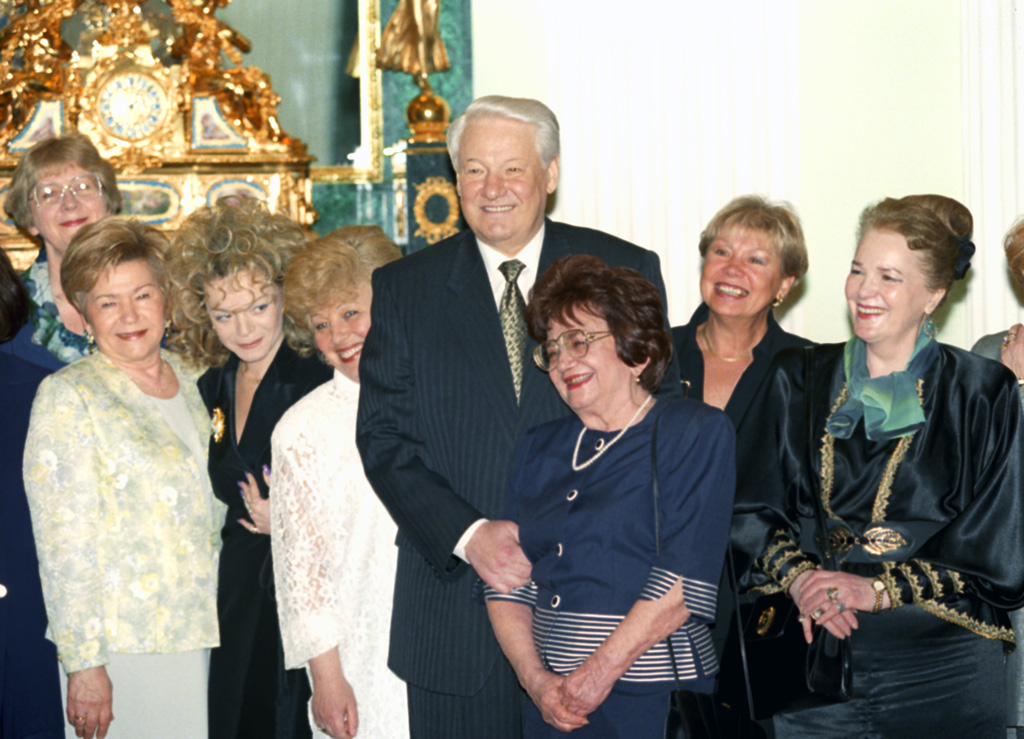 “The President of the RF Boris Yeltsin with the famous Russian women in Kremlin”. The President of the Russian Federation wished the famous women of Russia on the Women's Day of the 8th of March. Among the invited - artists and sports personalities. Naina Yeltsin, the wife of the President, extreme left, took part in the meeting.